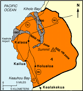 Threat level map of Hualalai. On a scale of 1 to 9 it is listed as level 4. The two grey areas are volcanic eruptions dating from 1801.